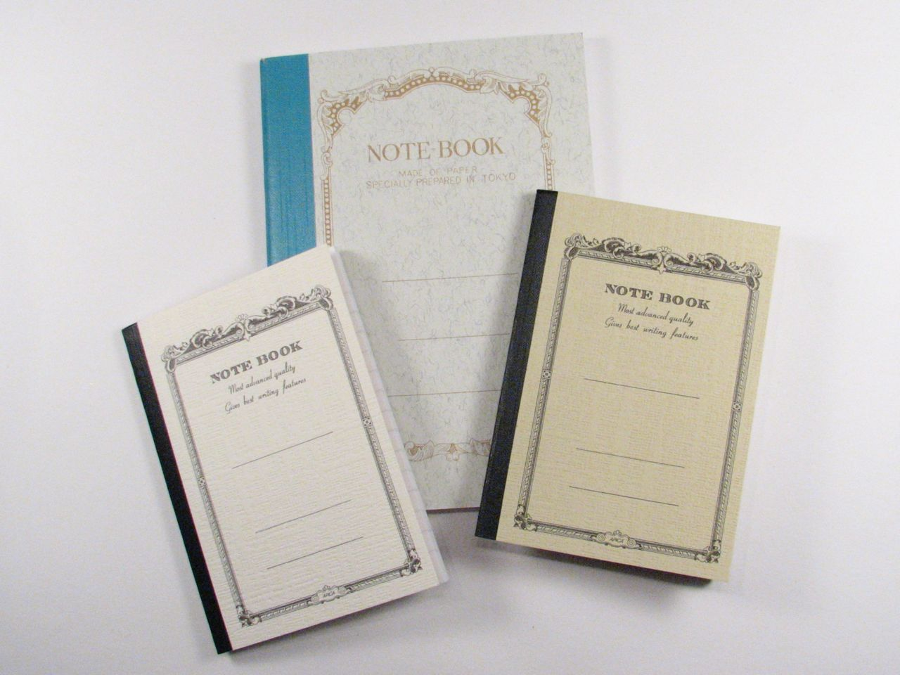 Notebooks